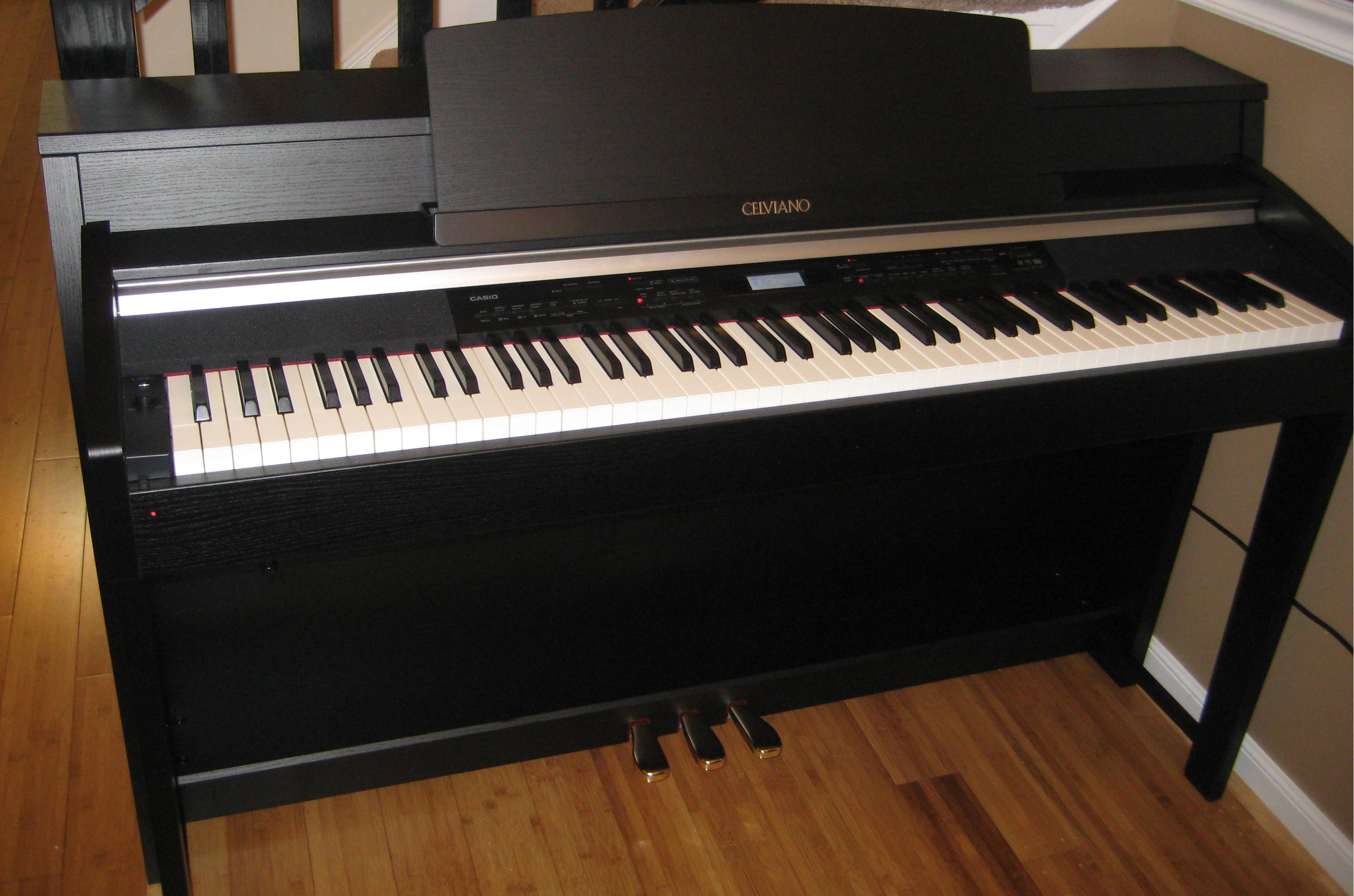 Casio Celviano AP620